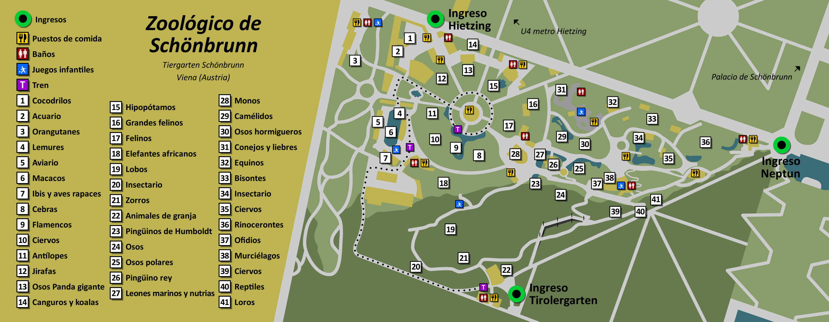 See the english version of the Schonbrunn zoo map (Vienna) in this link.